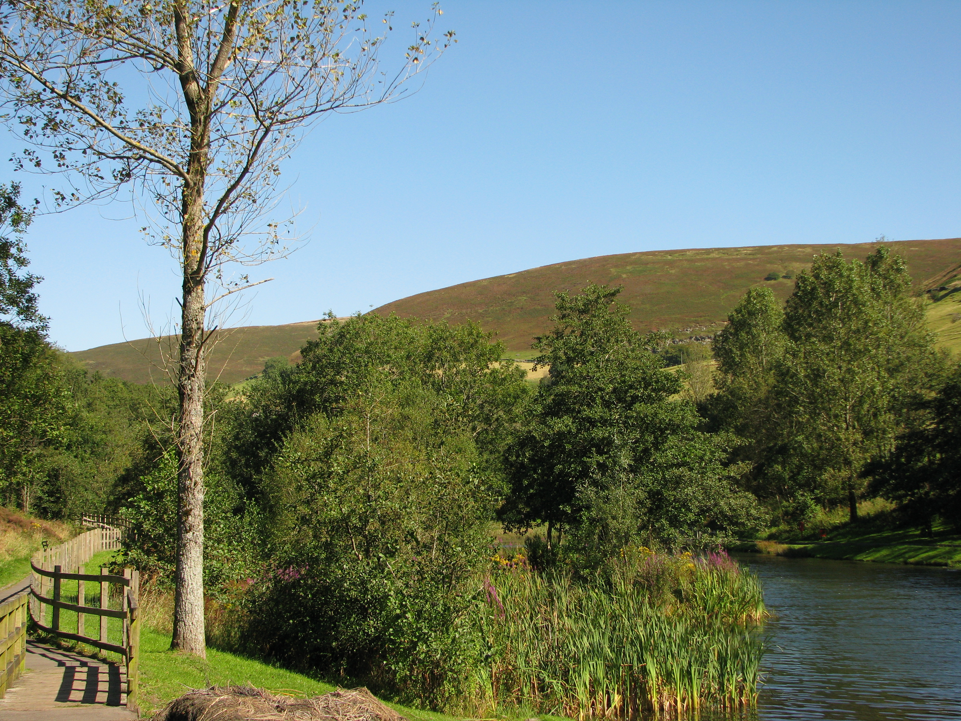 Lakeside path